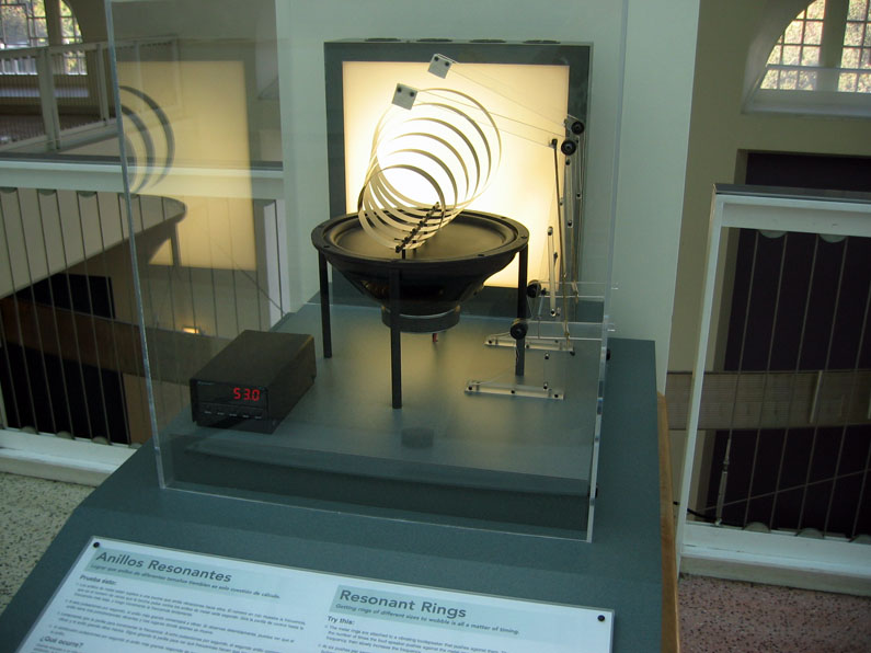 Resonant Rings - Getting rings of different sizes to wobble is all a matter of timing, mini-exhibit at the California Science Center, Los Angeles.